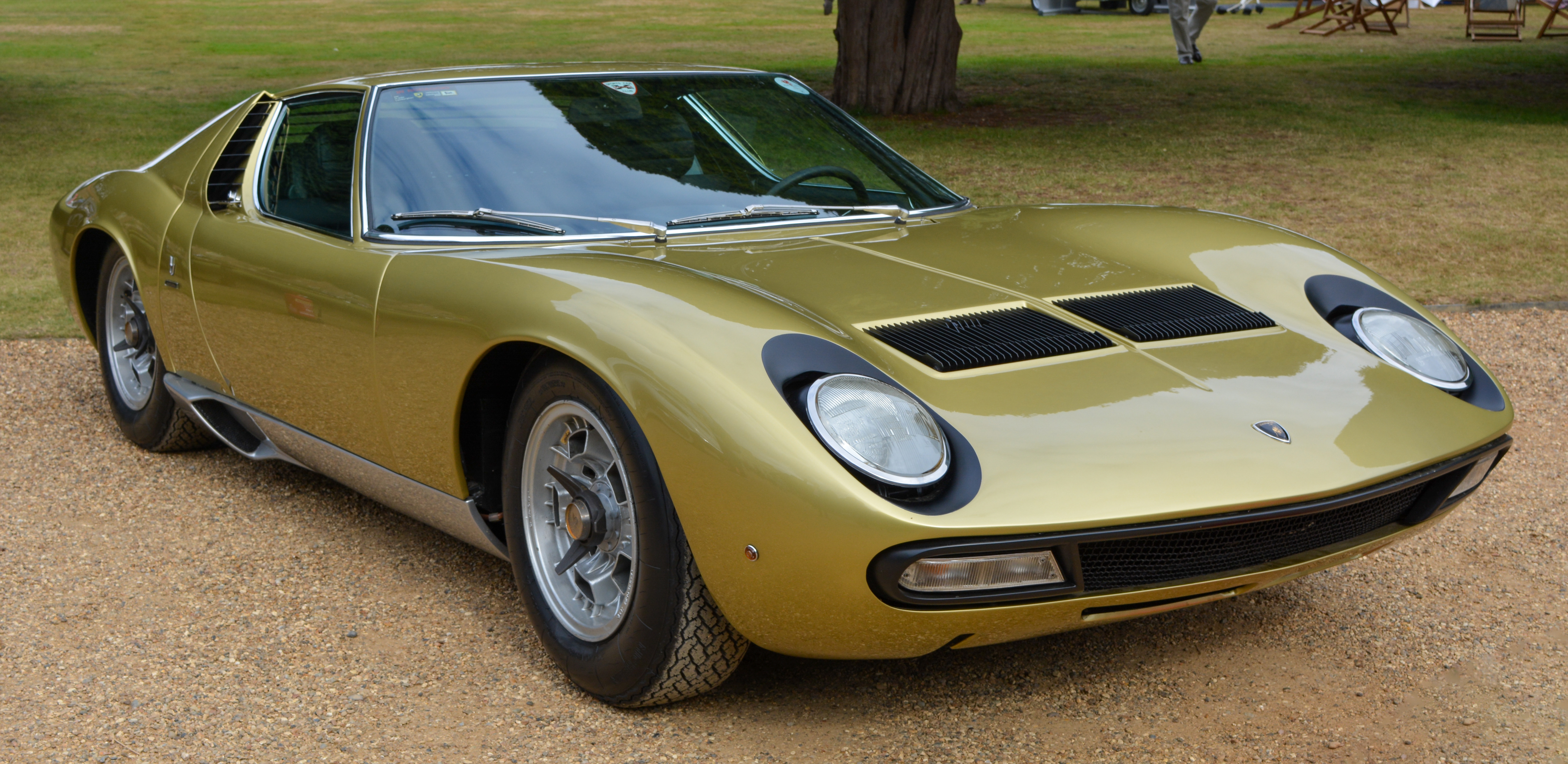 1971 Lamborghini Miura P400 SV Taken at the Concours d'Elegance Hampton Court 2019